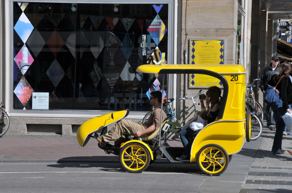 Bike cab in Amsterdam, Netherlands